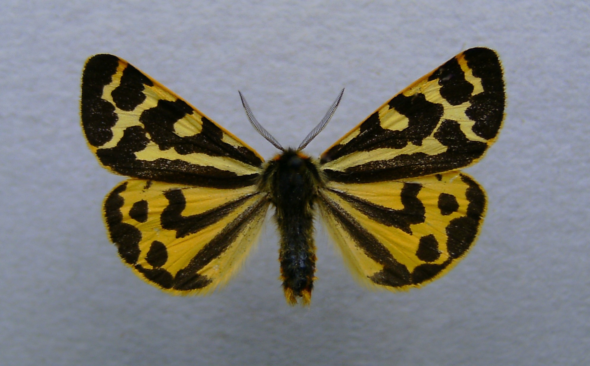 Parasemia plantaginis